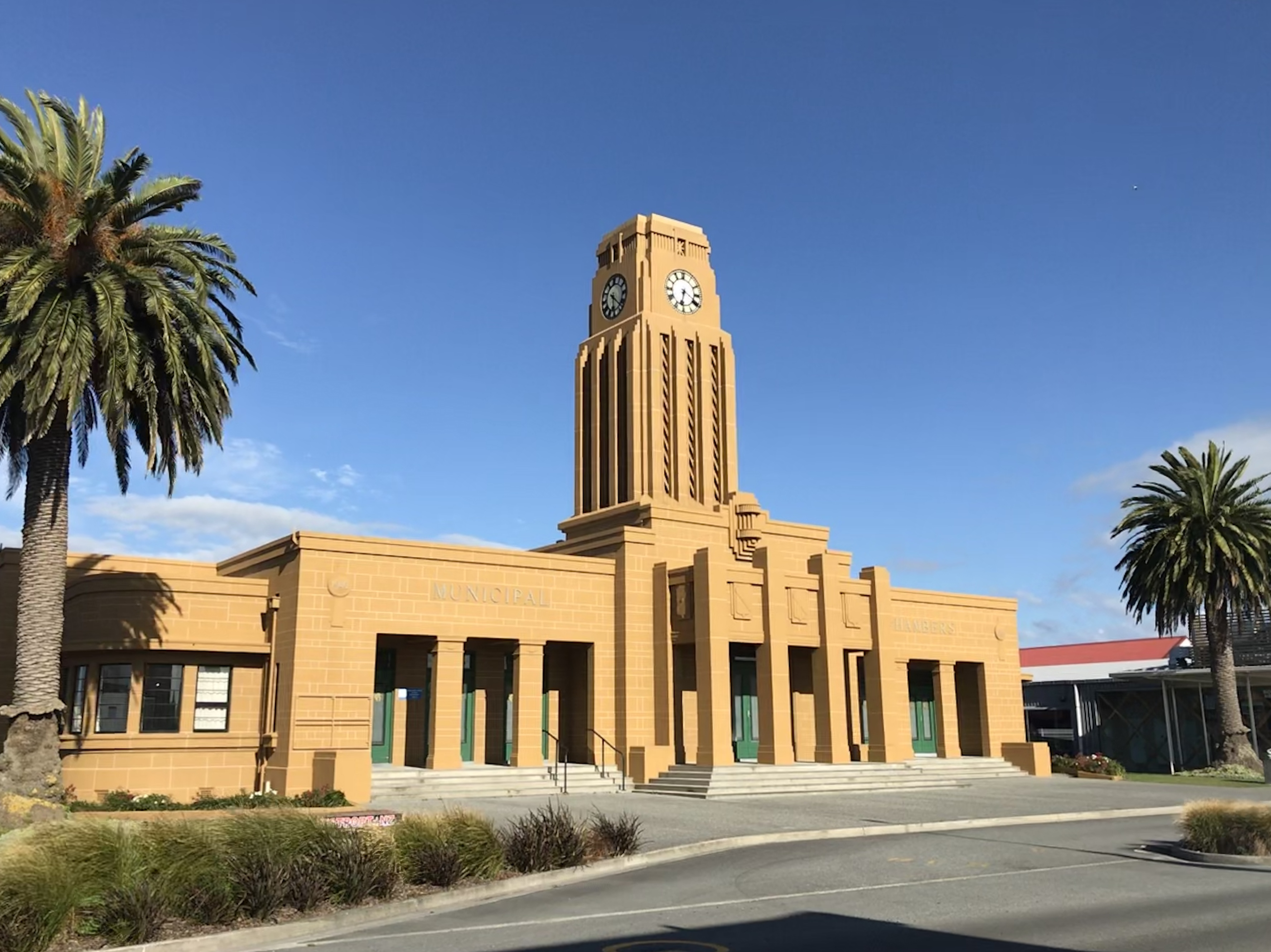 Municipal chambers at Westport, New Zealand